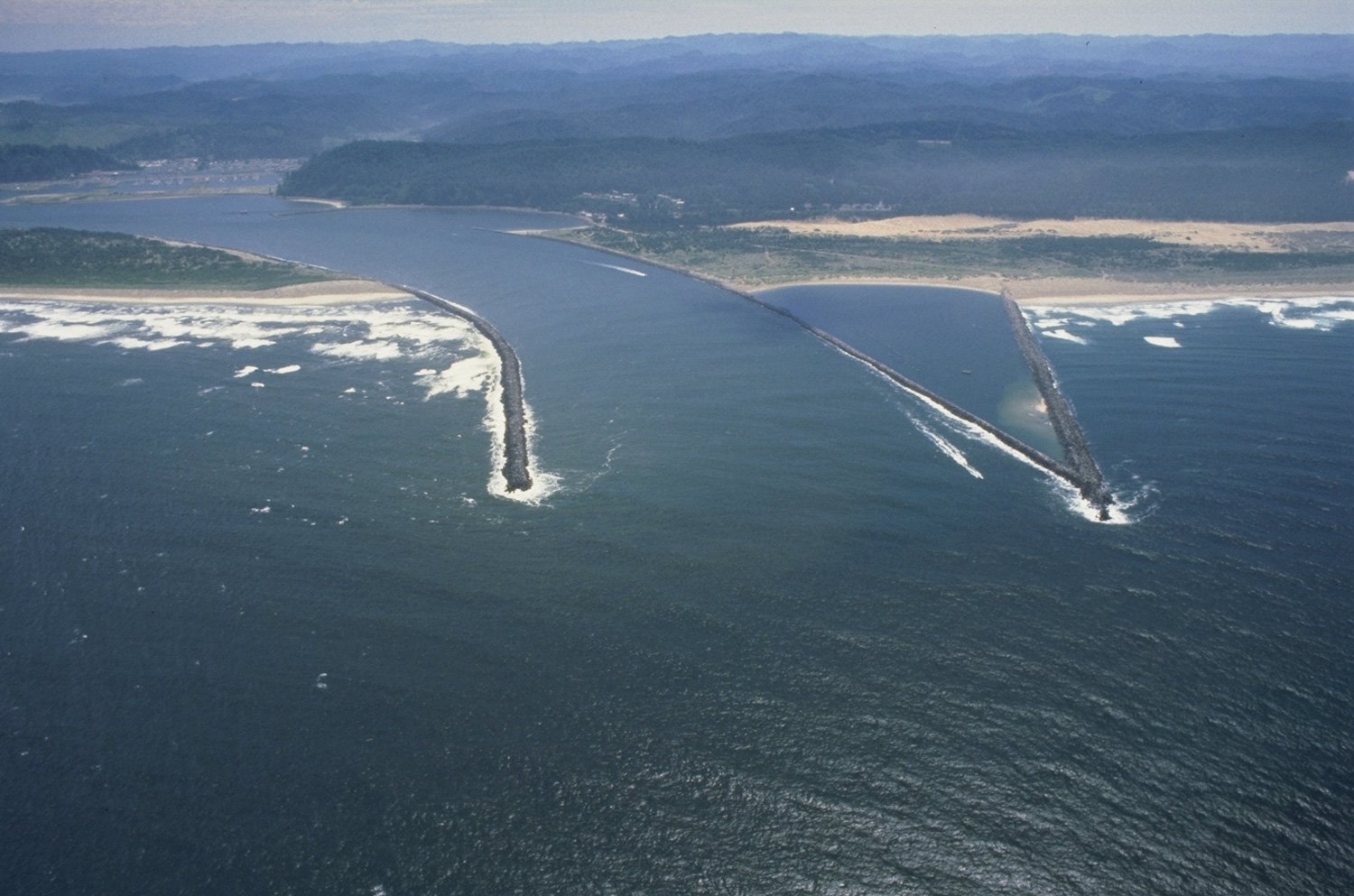 Aerial view of the mouth of the Umpqua River on the Pacific Ocean near Reedsport, Oregon, USA.